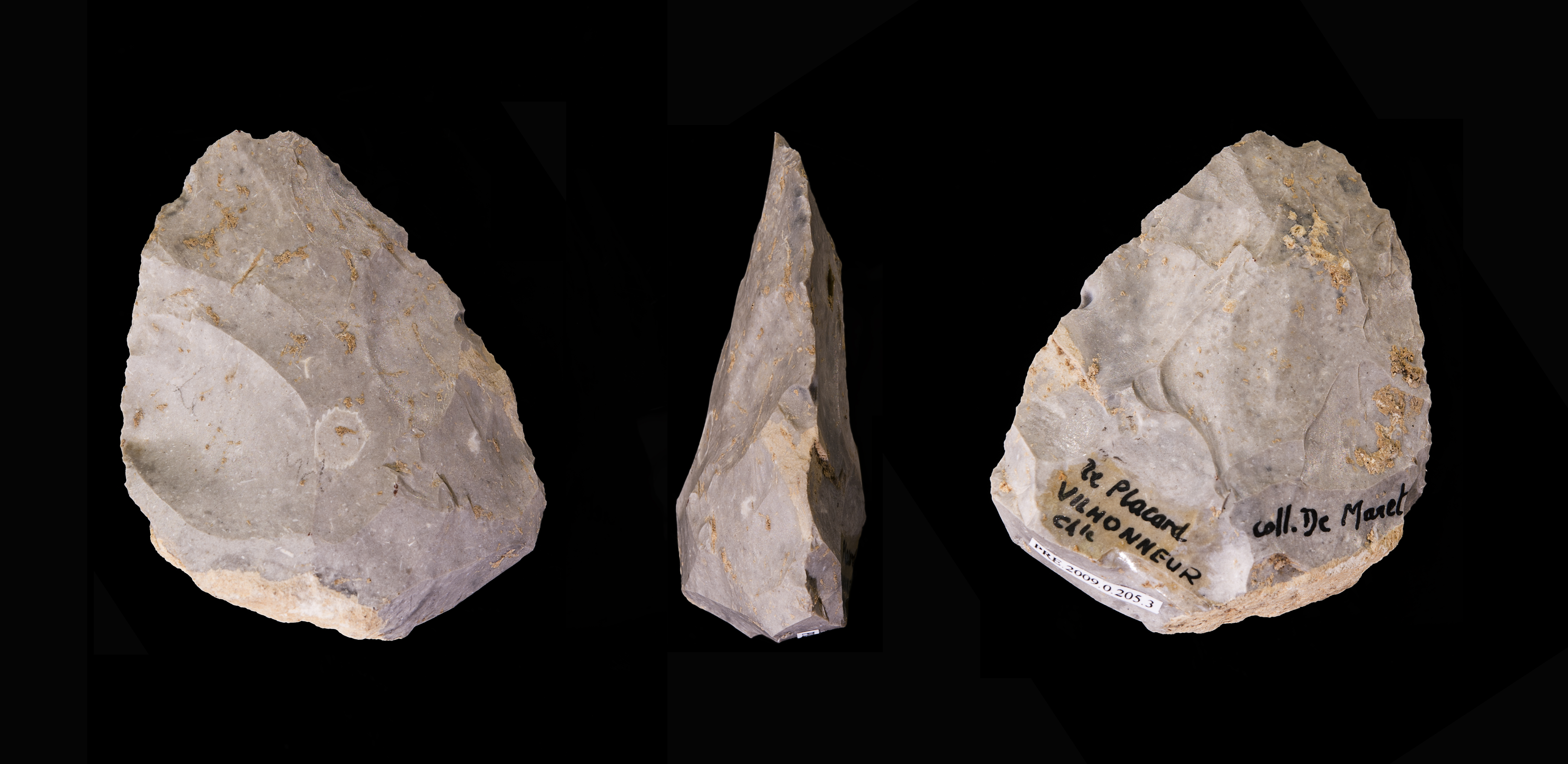 Different views of the same specimen.